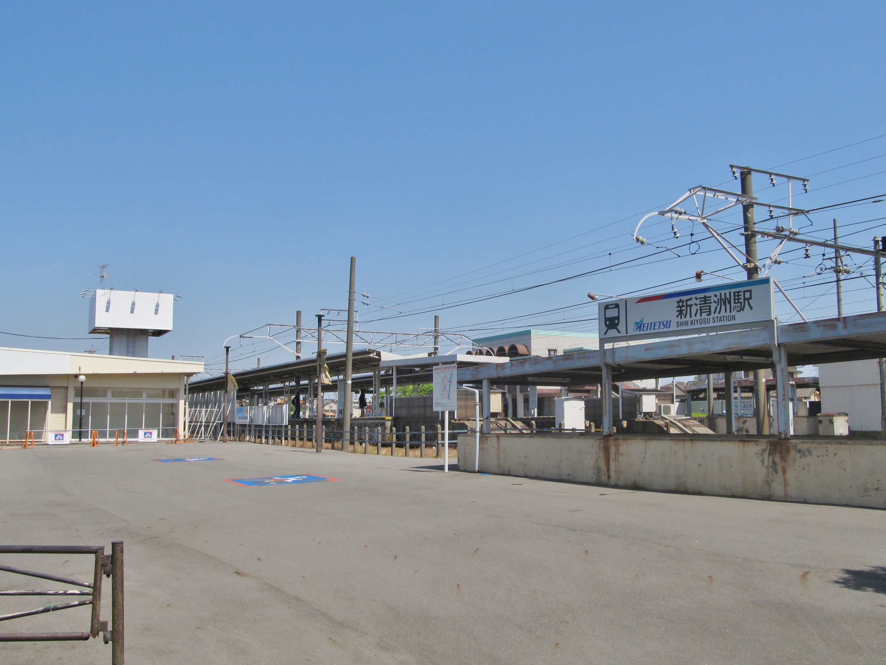 Nagoya Railroad Nagoya Main Line Shin Kiyosu Station West Gate